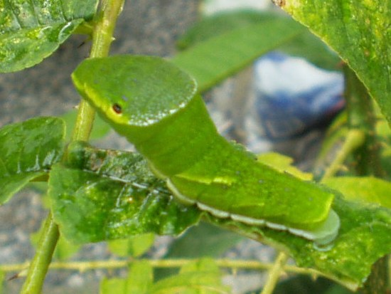 Papilio bianor - young caterpillar on Zanthoxylum ailanthoides. Location: Yoto, Utsunomiya-City, Tochigi, Japan.